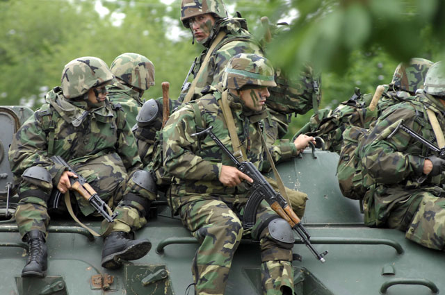 Soldiers from the Moldova National Army 22nd Peacekeeping Battalion return to their base at the Bulboaca Training Site on June 28, 2011 as part of Exercise Peace Shield 2011, a self-evaluation exercise designed to determine their abilities to conduct international peacekeeping operations.